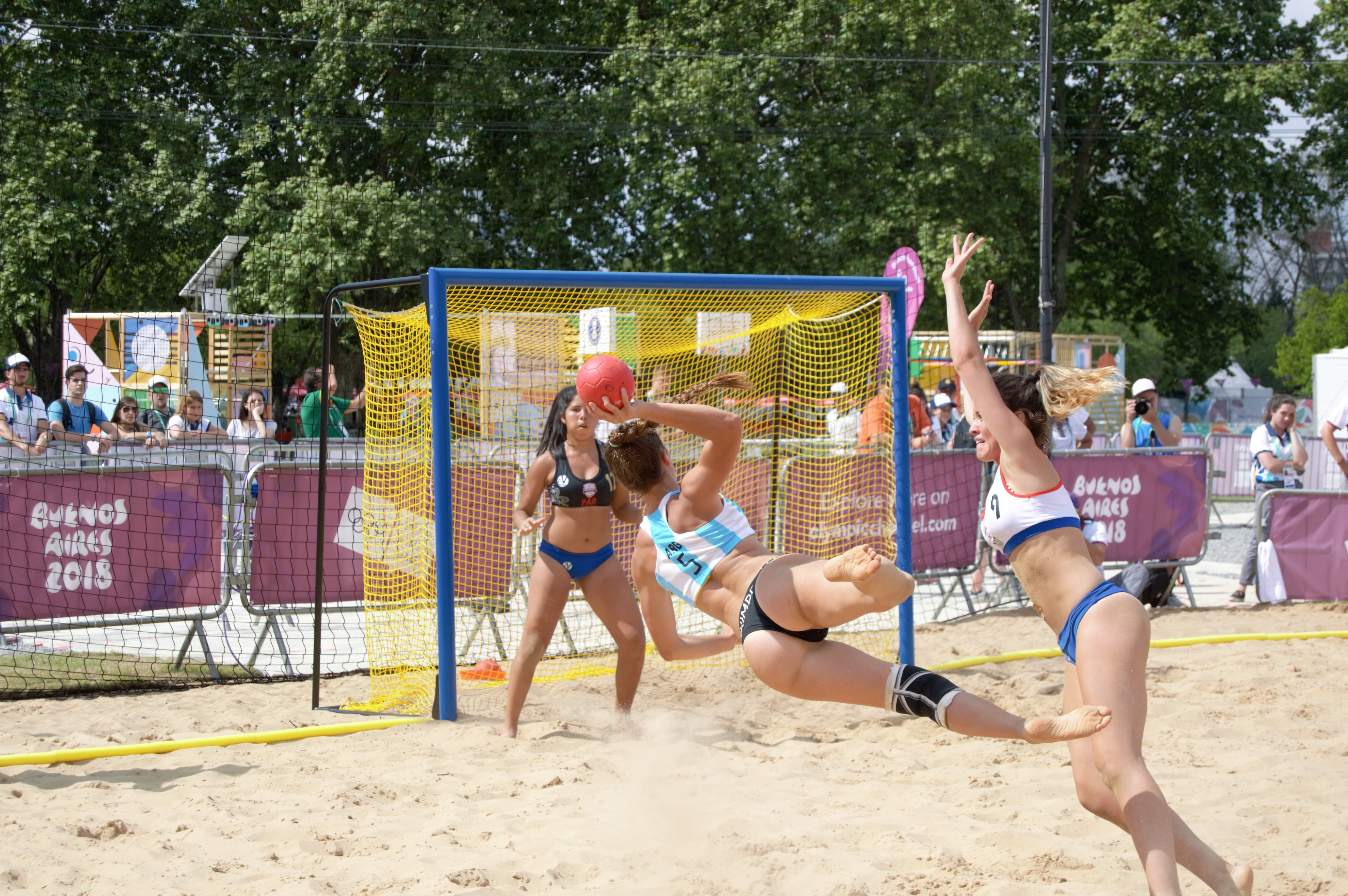 Beach handball match between Argentina and Paraguay at the 2018 Summer Youth Olympics.